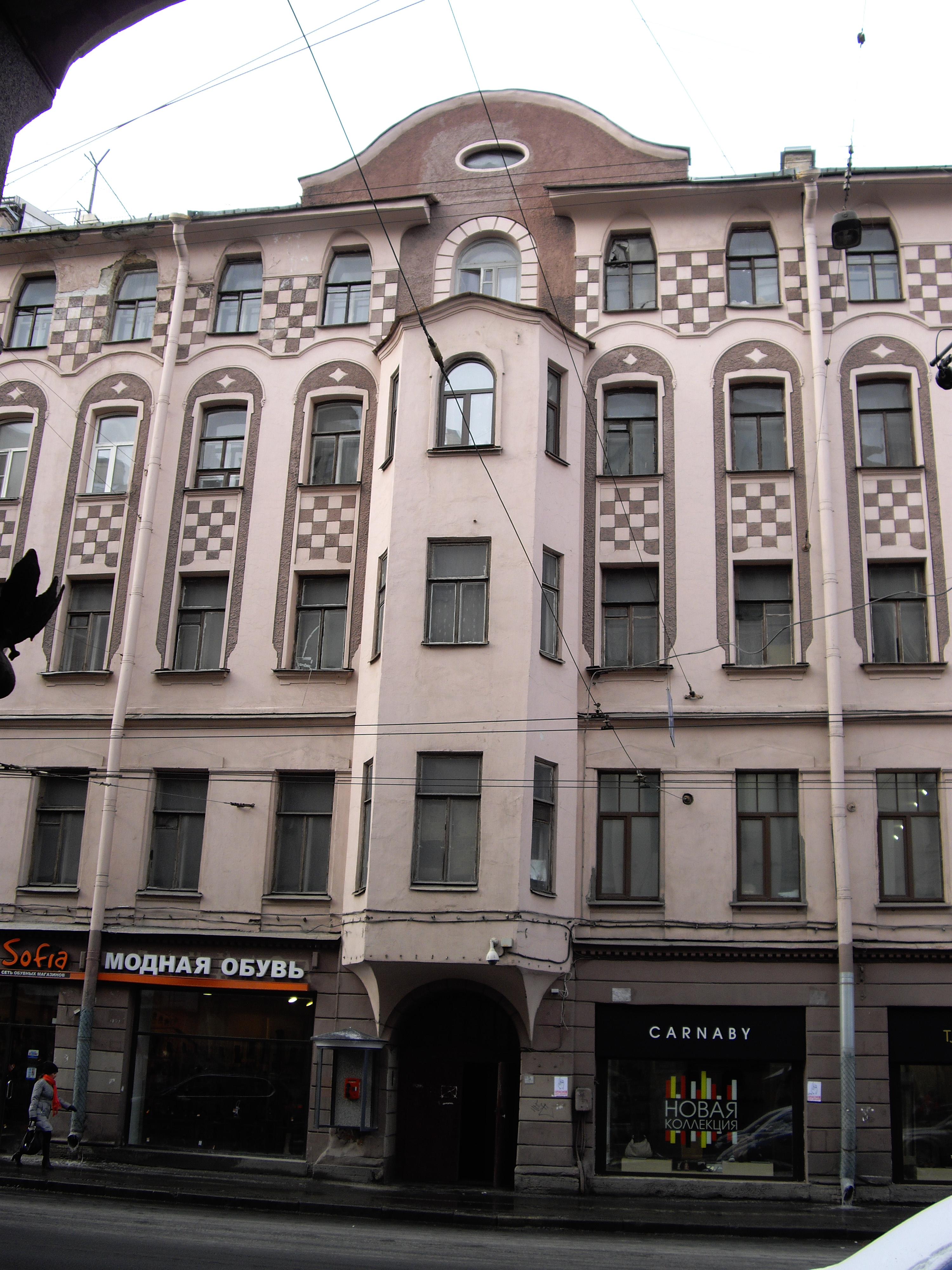 86, Bolshoy Prospekt (Petrograd Side) in Saint Petersburg